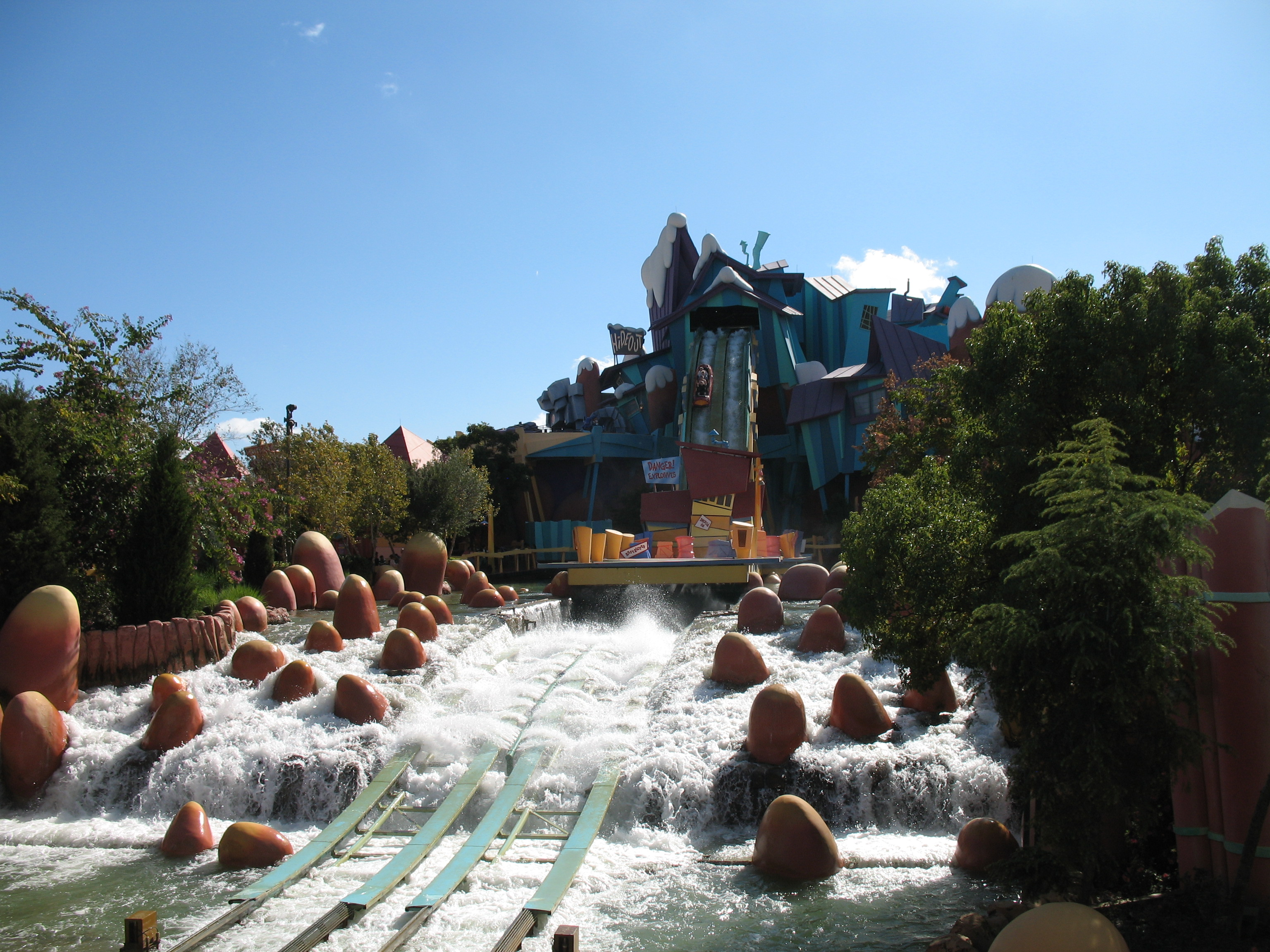 Dudley Do-Right's Ripsaw Falls at Islands of Adventure